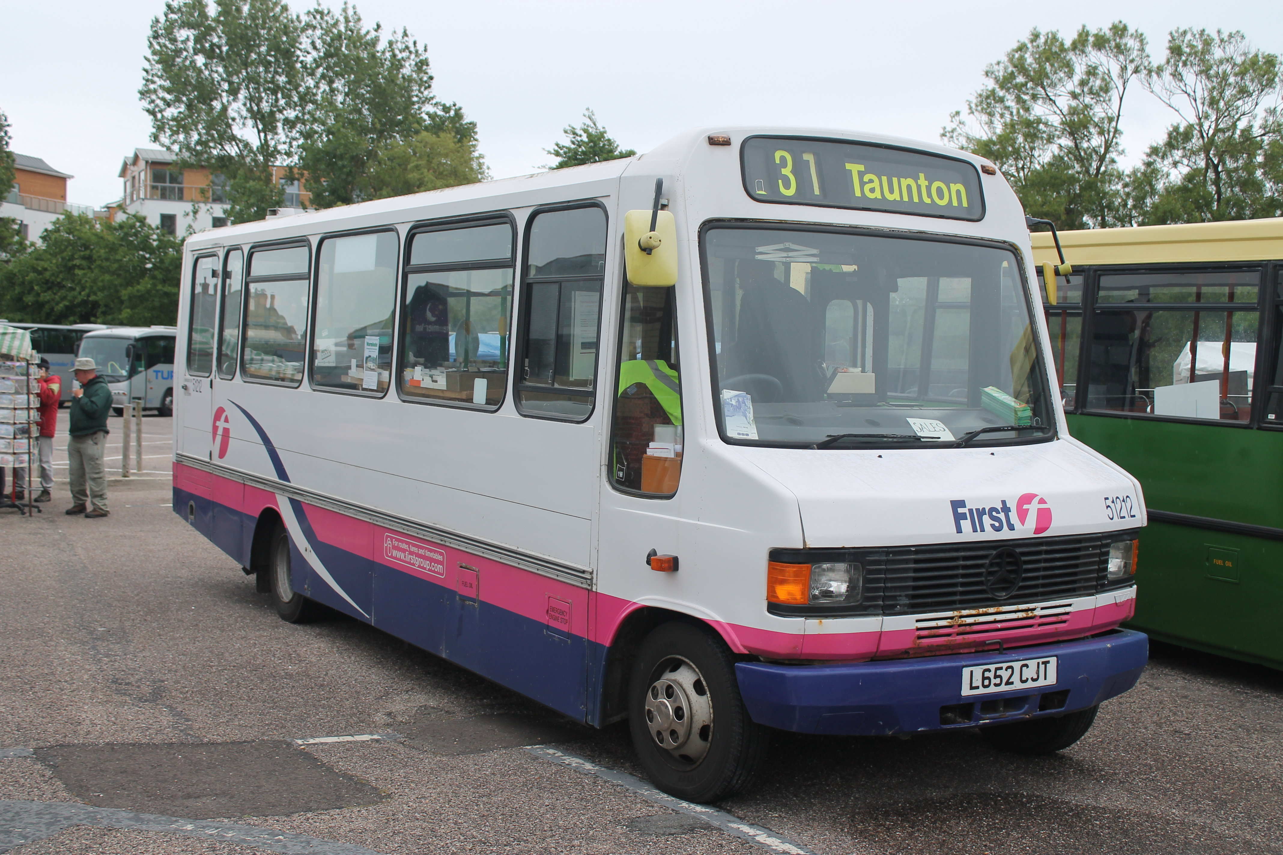 Here is a very nice, now preserved First midibus- L652CJT. It is a Mercedes Benz 811D with Wright bodywork. (B33F) She was first registered on the 17th November 1993. It was bought by Southern National as fleet number 758 to Weymouth depot. It has also served at Taunton, Weston Super Mare, Wells and Yeovil. It passed to First in 1999 and became 51212. It returned to Yeovil depot for its last 18 months of service, often on services 52, 57, 54 and 58(A). It ran until the MOT expired on 11/9/2011, when it was put into store. The vehicle was purchased for preservation on the 12th January 2012. When purchased, it had clocked up 1,169,220 kms or 730,000 miles. 51212 is the last survivor of the batch as all the others have been scrapped. It was new with Southern National "small bus" yellow with local depot blue/ orange stripes. It was repainted into First's Barbie 2 livery at the First Somerset and Avon paintshop, Bath in May 2005. It still carries this livery today. Here, this very nice bus is seen at the 2013 Weymouth Vintage bus Rally on Sunday 16th June 2013- now 20 years old.